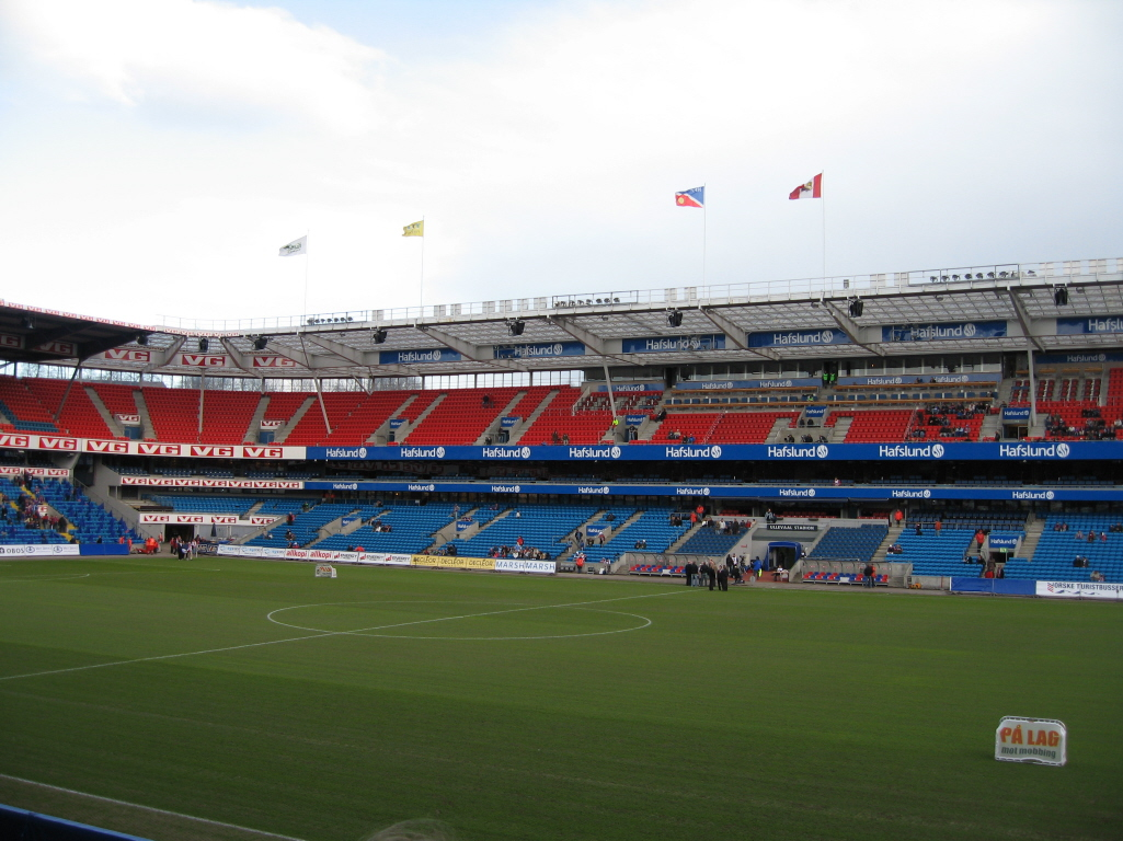 The Main Stand of Ullevaal Stadion, Oslo, Norway.